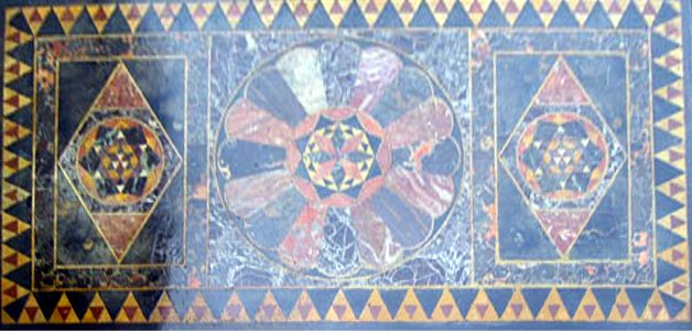 Ashford Black Marble table top - work stopped in 1905. This picture of the 2D table top surface was created using GIMP from the picture in the url